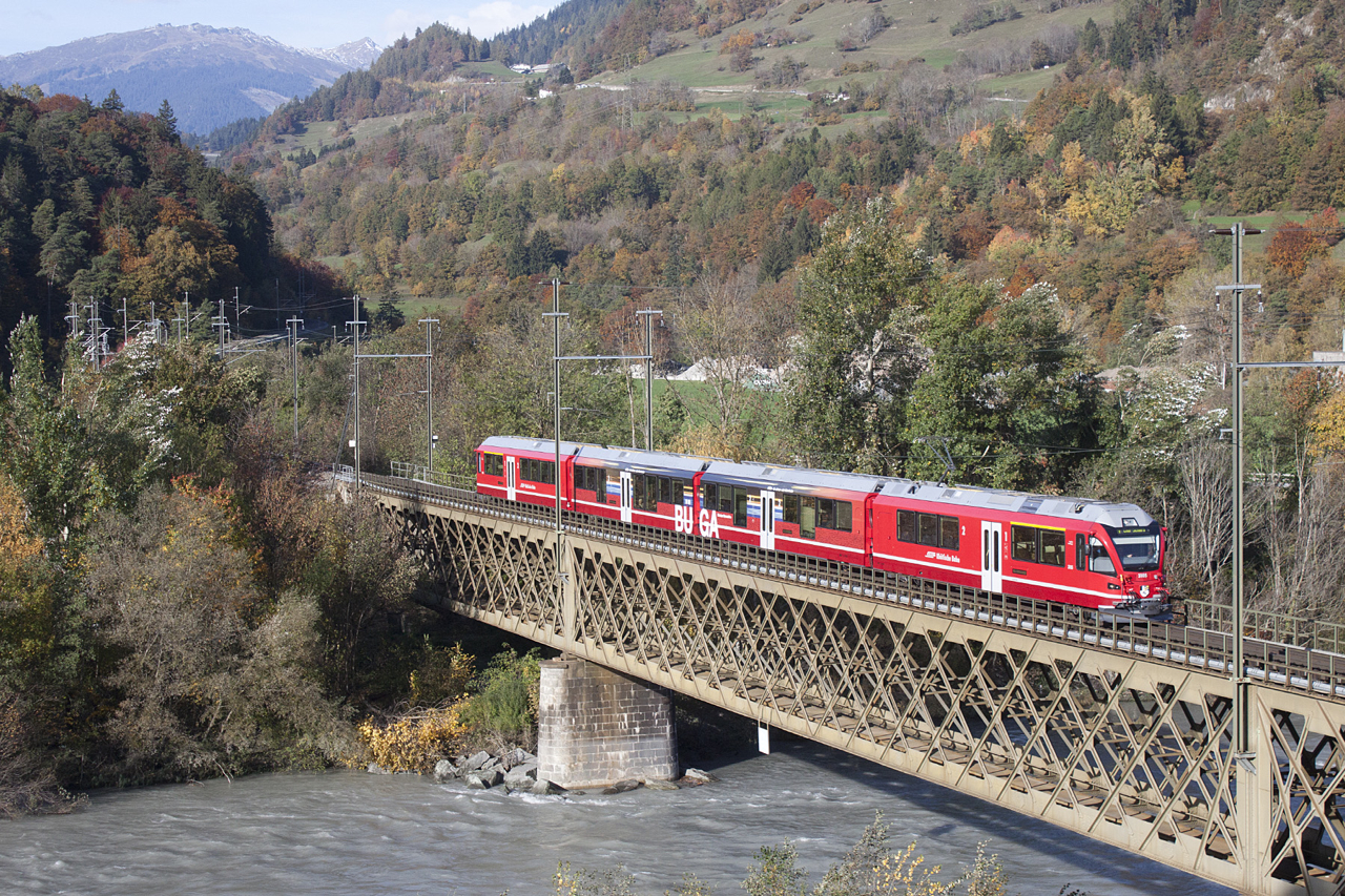 RhB ABe 4/16 3102 crossing "Hinterrhein Reichenau" bridge while travelling from Rhäzüns to Schiers as S1 1510.